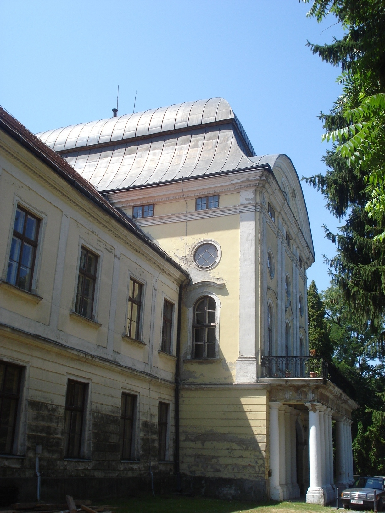 Pejačević castle in Virovitica - northeast view